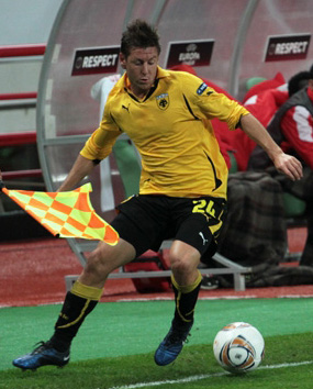 Nathan Burns (2011-10-20)